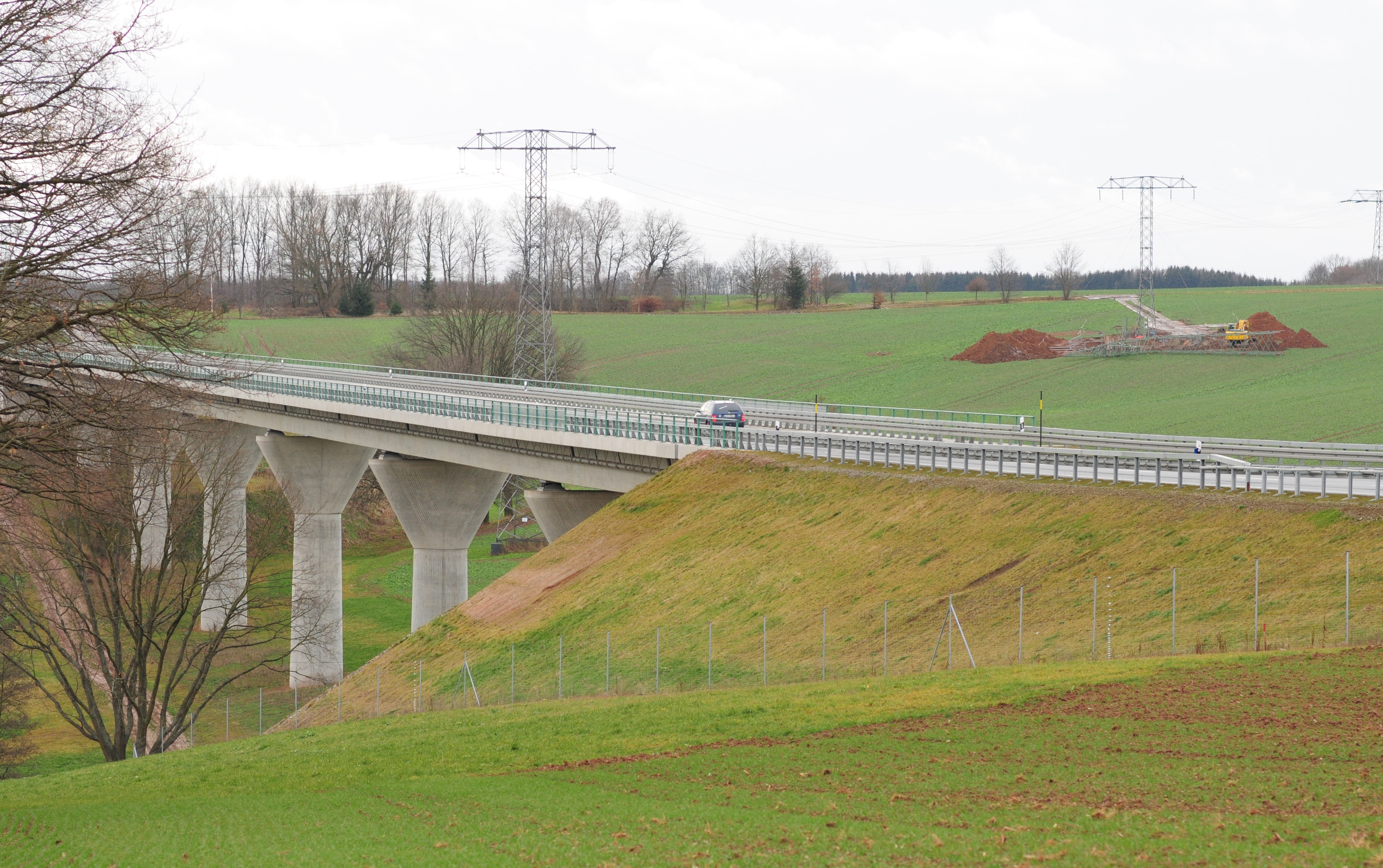 road bridge of the provincial highway no. 289 near Culten - municipality Neukirchen/Pleiße (district Zwickau, Free State of Saxony, Germany)